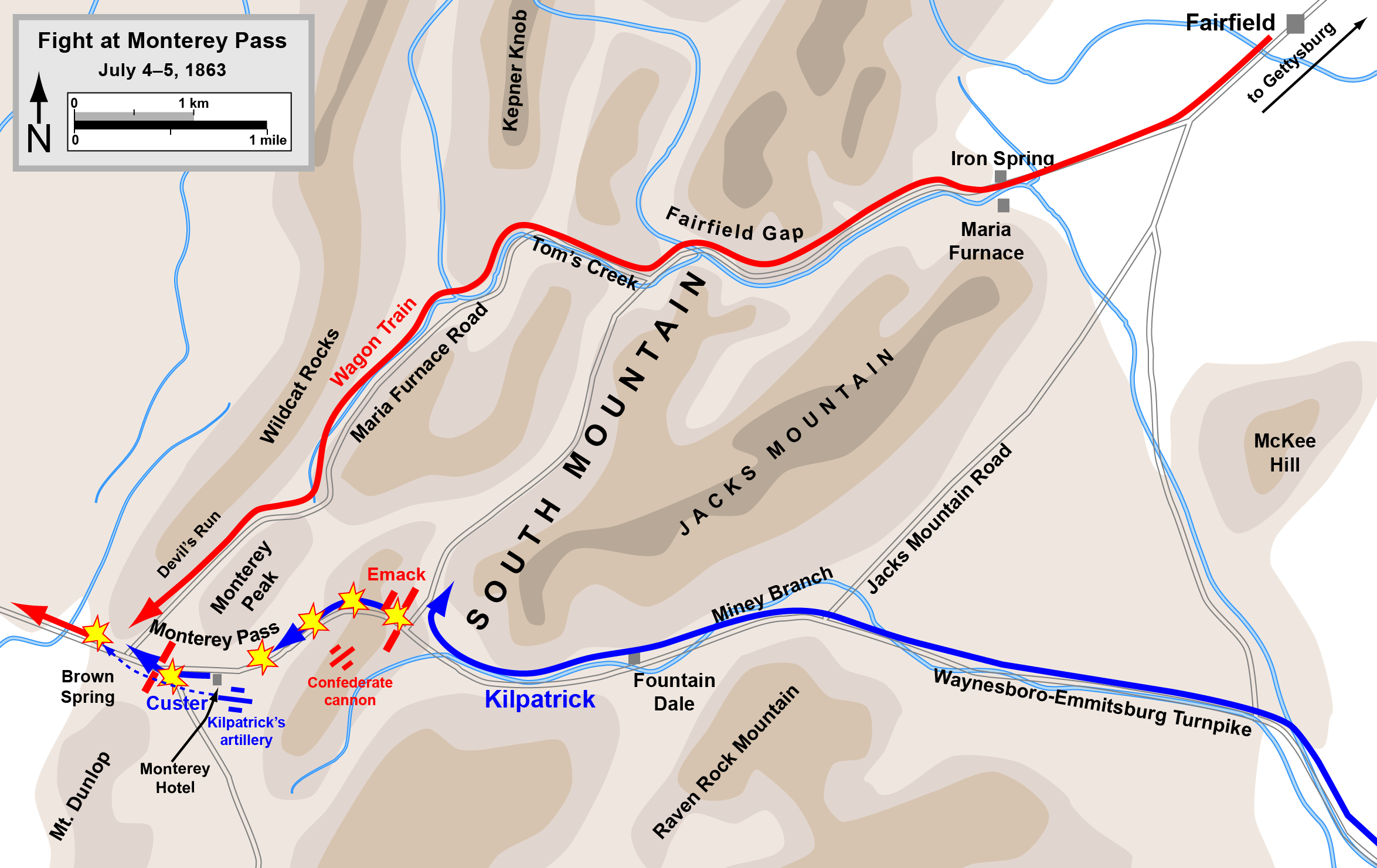 Map of the Fight at Monterey Pass of the American Civil War.